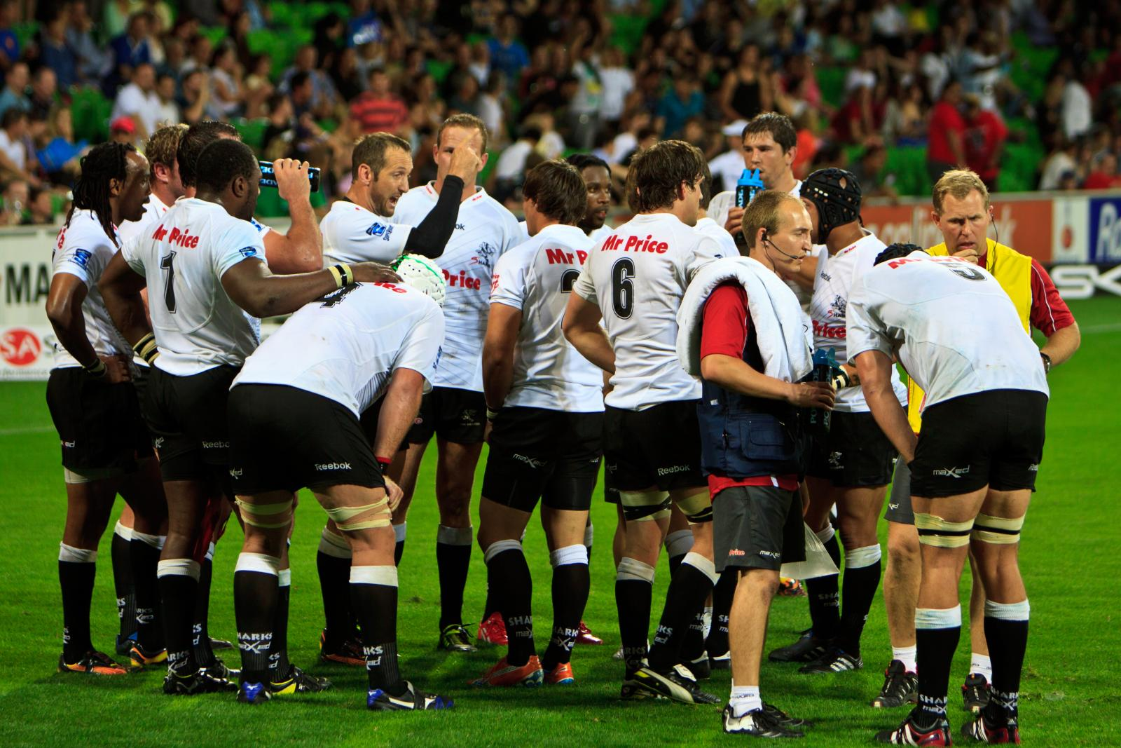 Rabodirect Rebels vs Sharks Rabodirect Rebels vs Sharks in the 2011 Super Rugby competition